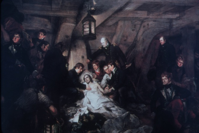 PICTURE OF THE PAINTING OF THE "DEATH OF NELSON BY DAVIS WAS DONE IMMEDIATELY AFTER THE SHIP RETURNED TO PORTSMOUTH AND ALL THOSE CLUSTERED AROUND NELSON WERE DRAWN FROM LIFE.